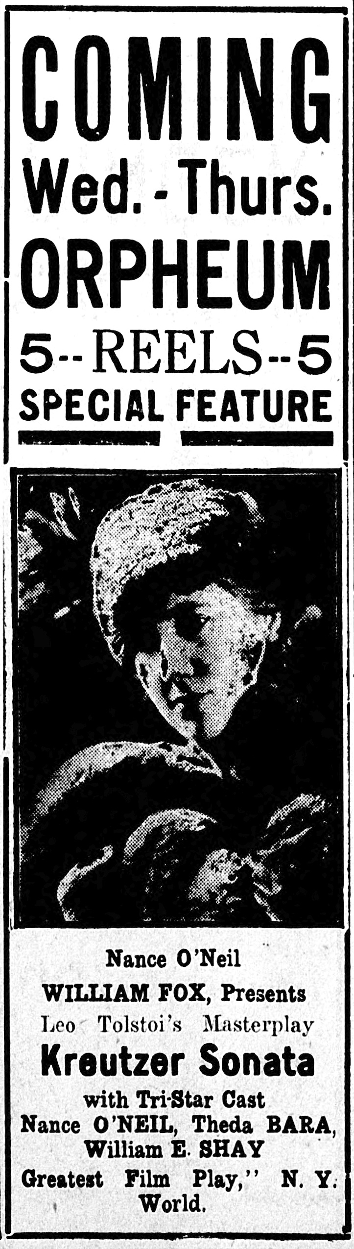 The Kreutzer Sonata is a 1915 American silent romantic drama film directed by Herbert Brenon and costarring Theda Bara. This is a newspaper advertisement for the film.